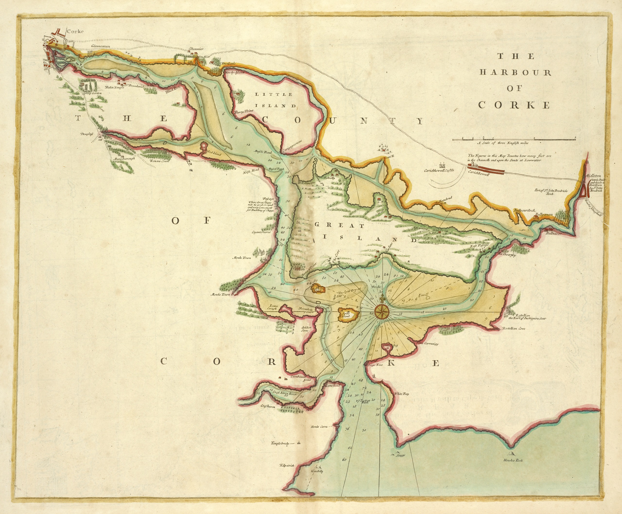 Map of Cork Harbour from Samuel Thornton, ca. 1702